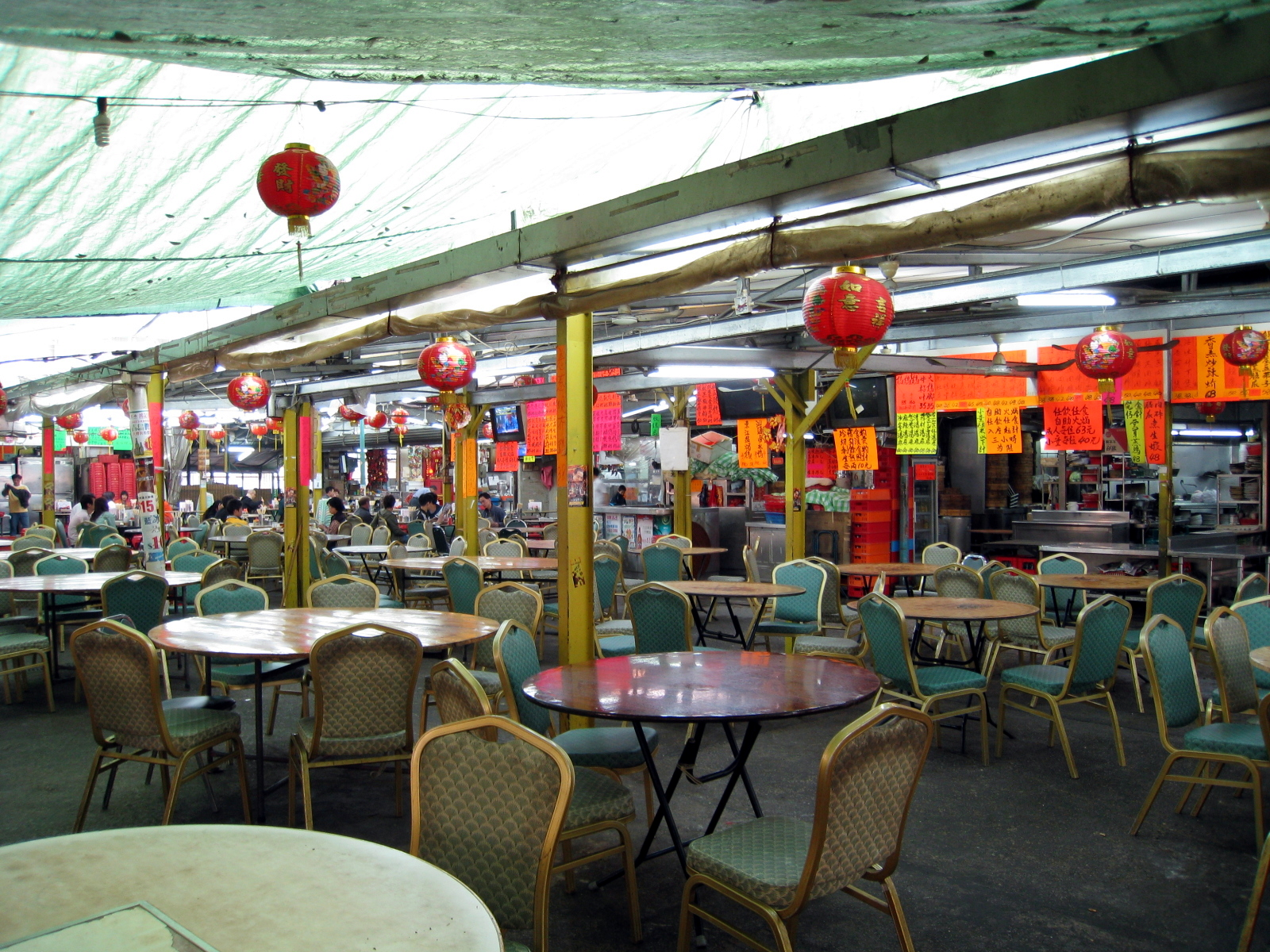 HK Pok Hong Estate Mushroom Interior